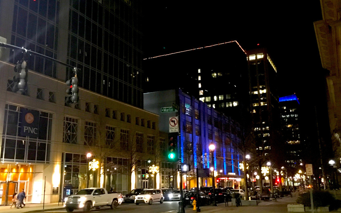 Cold December 2019 night in Raleigh, NC on Fayetteville Street. Fayetteville Street is one of Raleigh's oldest and most developed streets.